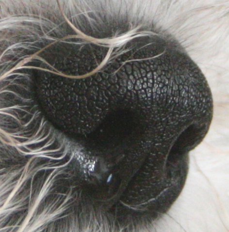 Photo of a common canine nose.